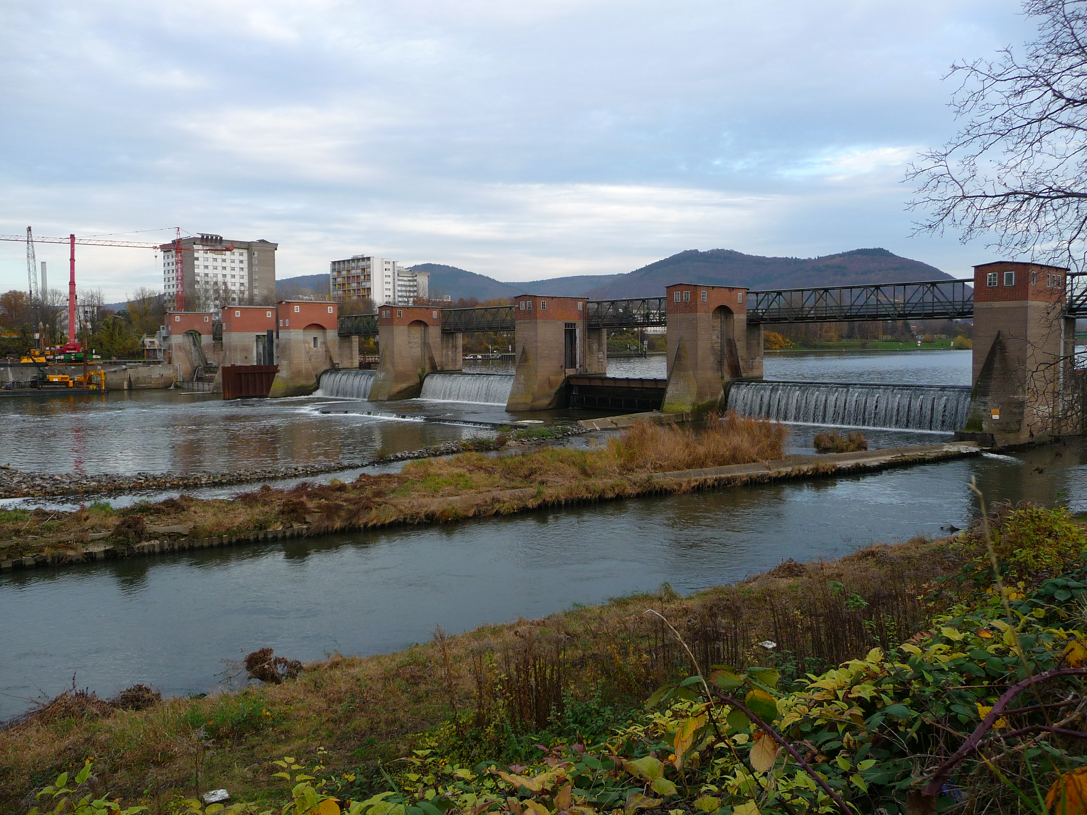 Wieblingen weir on the Neckar river in Heidelberg, Germany